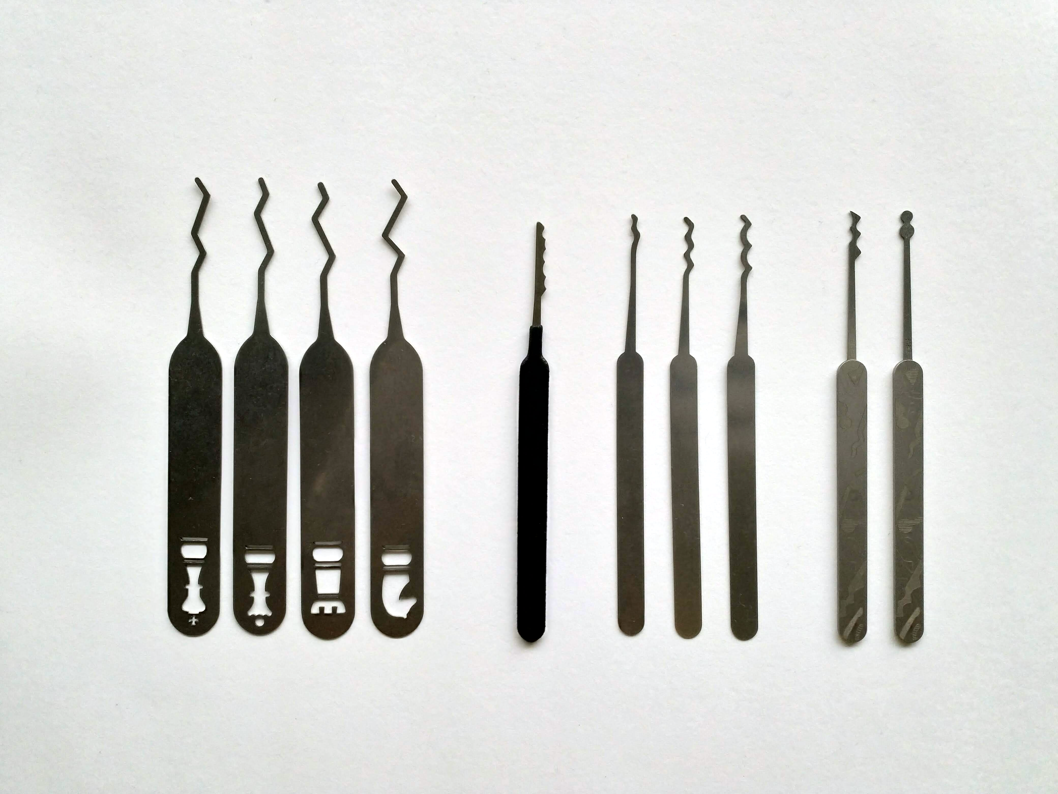 From left to right: 1. king rake 2. queen rake 3. rook rake 4. horse rake 5. city rake 6. snake rake 7. worm rake 8. bogota rake 9. W rake 10. snowman rake